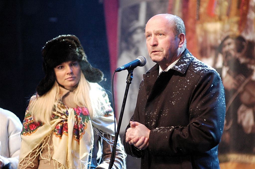 Maciej Płażyński during opening ceremony of 8th World Winter Polish Games in Zakopane